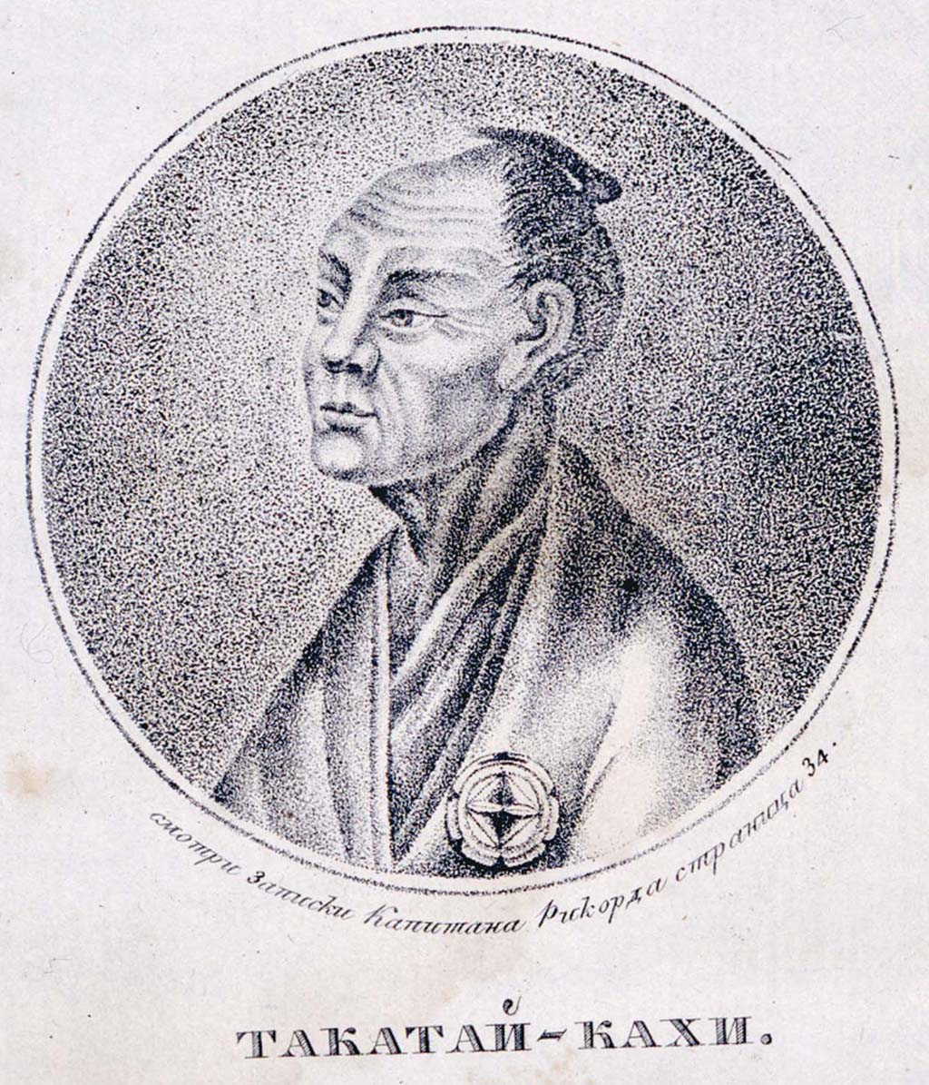 included in "Negotiations with Japanese " by P. I. Ricord (Russia, 1816)